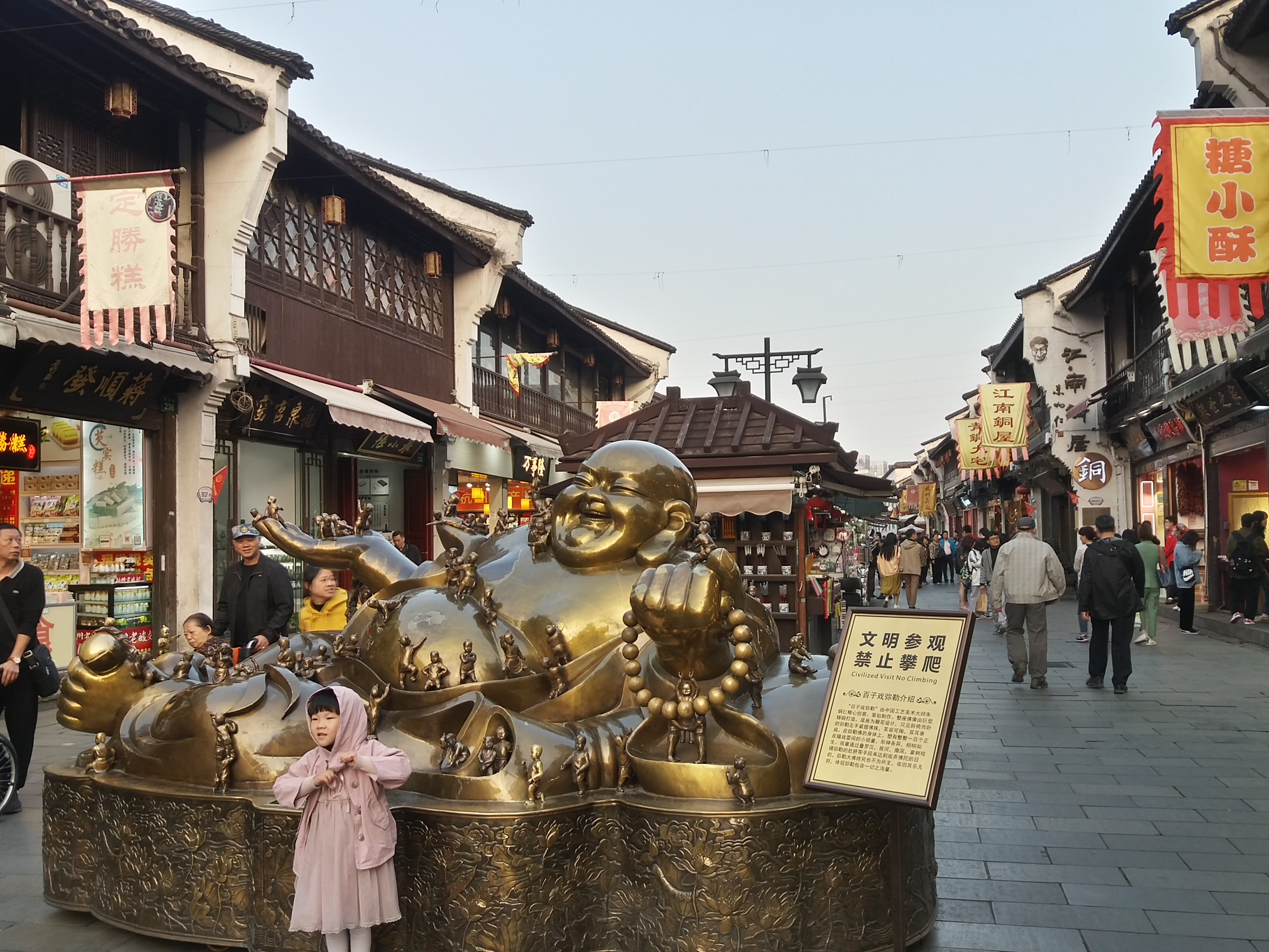 Hefang Street